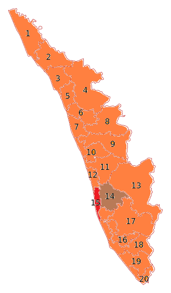 Seat-sharing arrangement of the Bharatiya Janata Party-led National Democratic Alliance for the 2014 Indian general election in Kerala. Key Bharatiya Janata Party Kerala Congress (Nationalist) Revolutionary Socialist Party (Bolshevik)